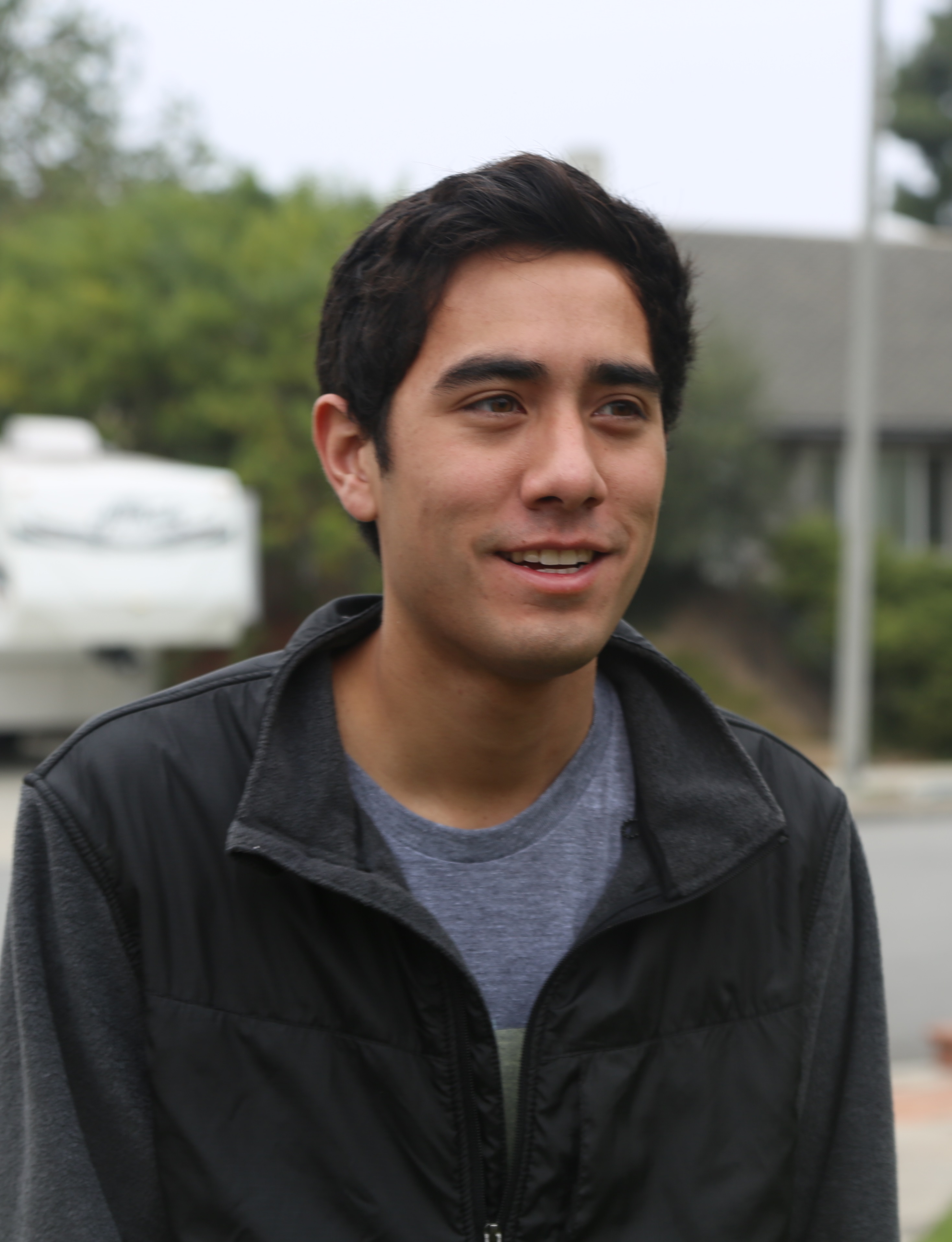 This is a photo of Zach King.